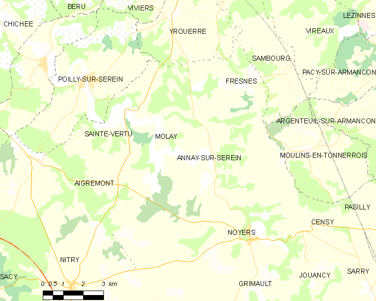 Map of French municipality Annay-sur-Serein